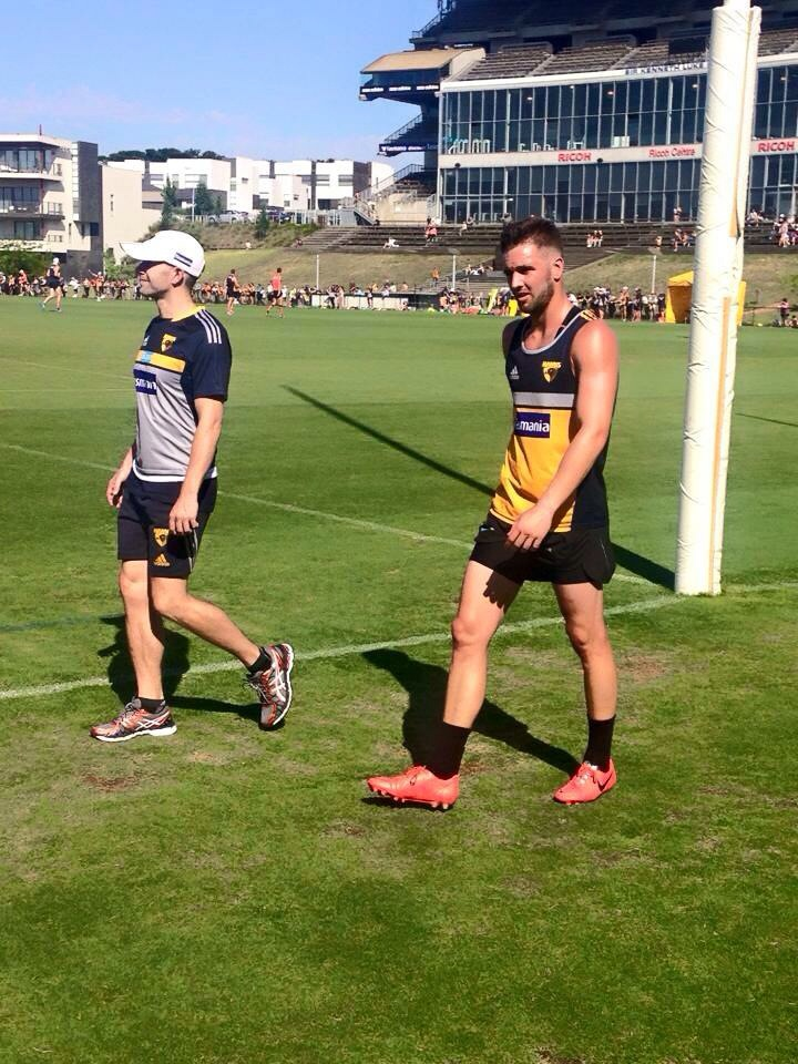 Matt suckling at hawks training 2015